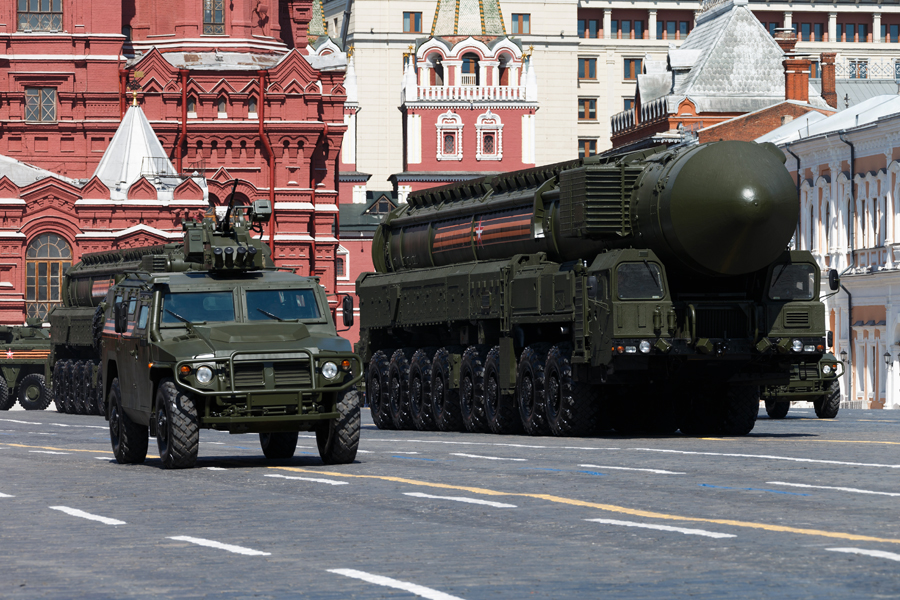 Victory Day military parade on Red Square 2016-05-09